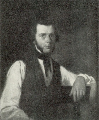 Portrait of the poet, composer and later politician Gunnar Wennerberg, in the possession of Västgöta nation, a student society at Uppsala University in Sweden.